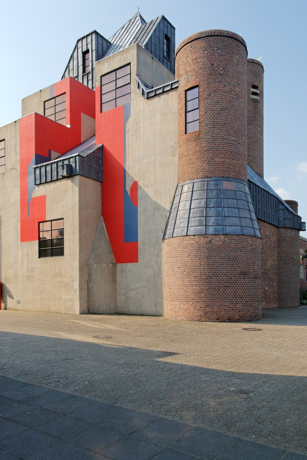 Saint Matthew in Düsseldorf-Garath, Germany